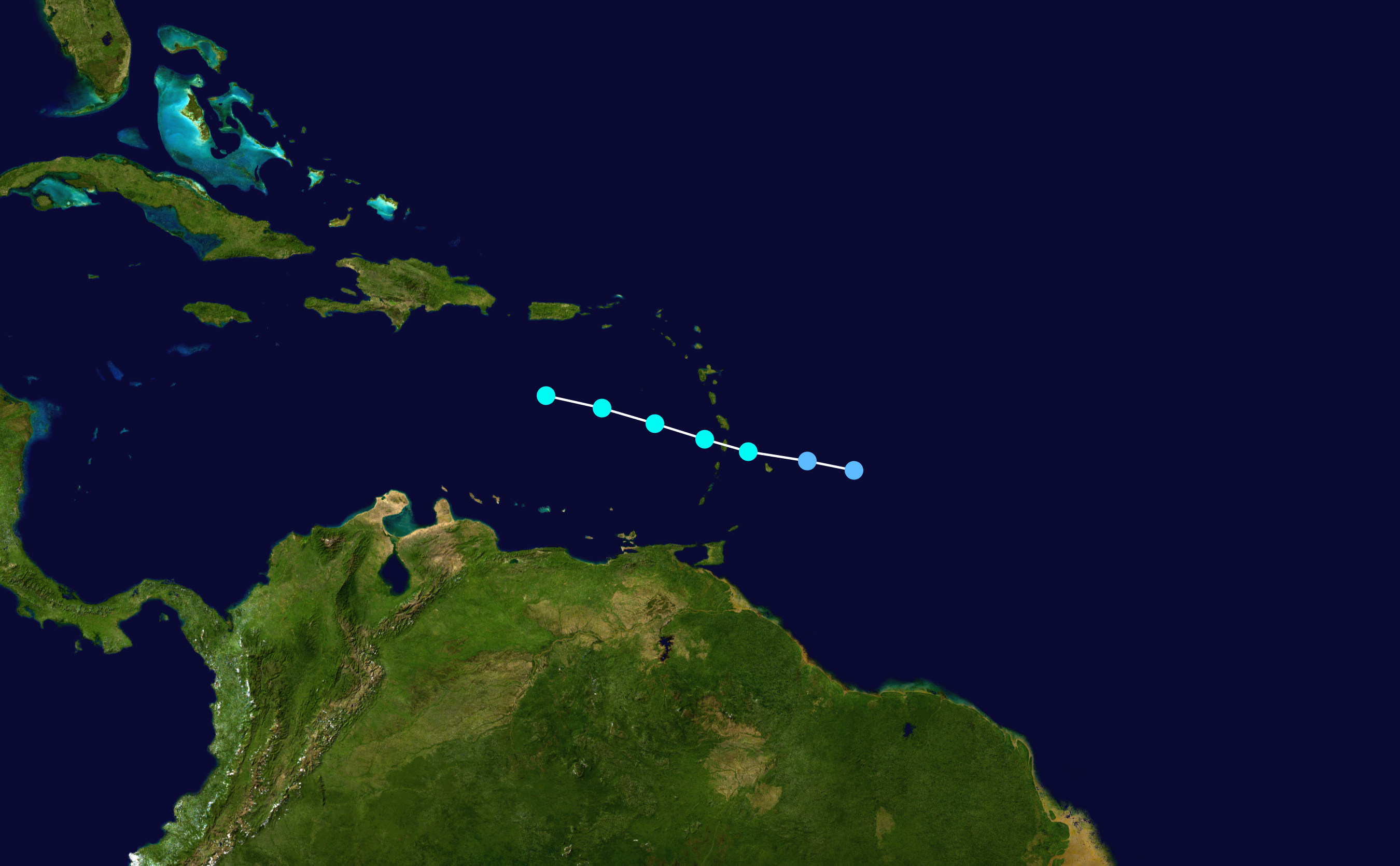 Track map of Tropical Storm Debby of the 1994 Atlantic hurricane season. The points show the location of the storm at 6-hour intervals. The colour represents the storm's maximum sustained wind speeds as classified in the Saffir–Simpson scale (see below), and the shape of the data points represent the nature of the storm, according to the legend below. Saffir–Simpson scale Tropical depression≤38 mph≤62 km/h Category 3111–129 mph178–208 km/h Tropical storm39–73 mph63–118 km/h Category 4130–156 mph209–251 km/h Category 174–95 mph119–153 km/h Category 5≥157 mph≥252 km/h Category 296–110 mph154–177 km/h Unknown Storm type Tropical cyclone Subtropical cyclone Extratropical cyclone / Remnant low / Tropical disturbance / Monsoon depression